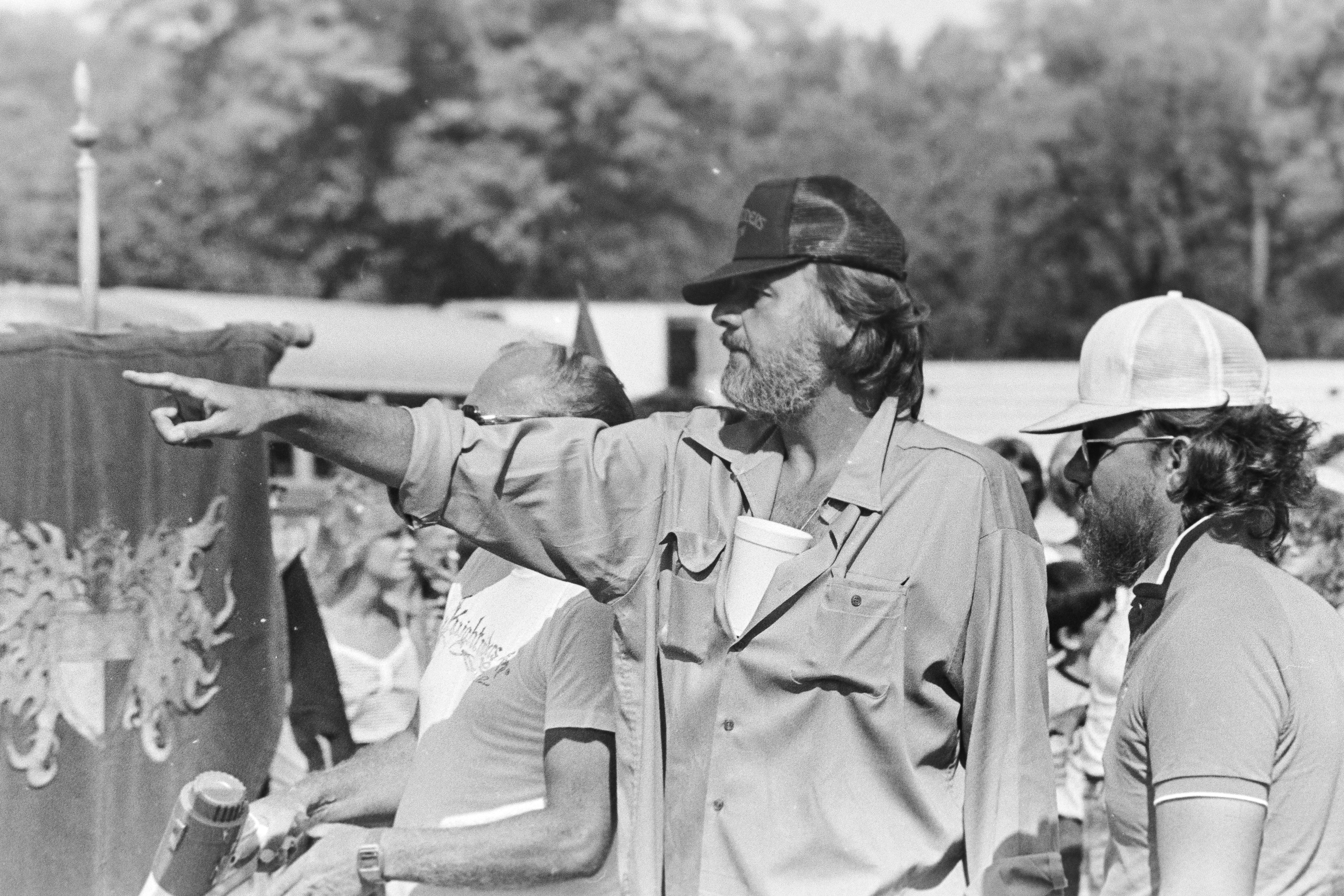 This shot was capture on the set of “Kightriders” in Pennsylvania, on location near Pittsburgh.